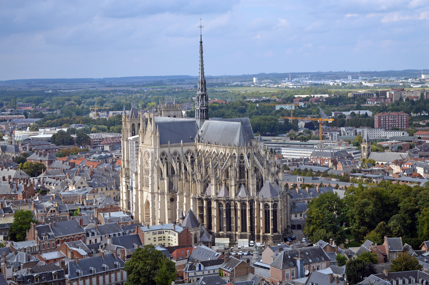 Amiens Cathedral (High Gothic style), view from southeast from Perret Tower